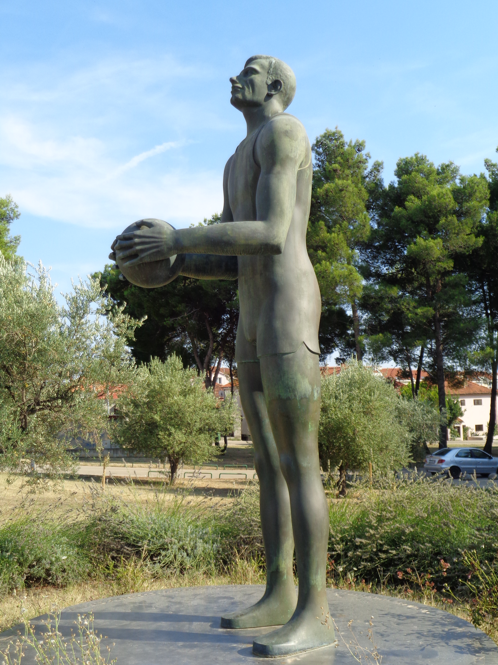 Statue of Krešimir Ćosić, Croatian basketball player, at Višnjik Sports Centre, Zadar, Croatia - northwest view